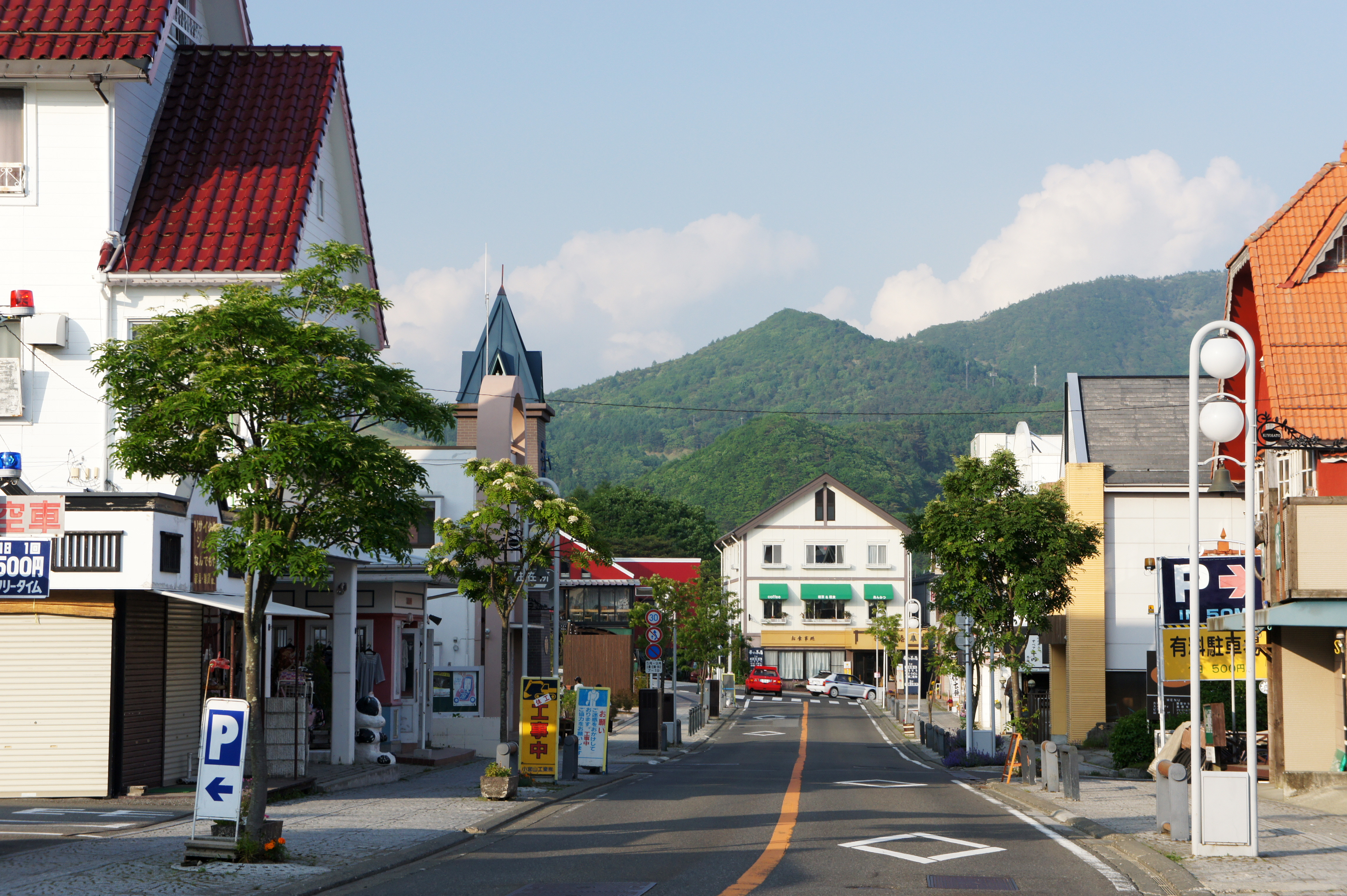 In front of Kiyosato Station, Kiyosato highlands, Hokuto, Yamanashi prefecture, Japan.